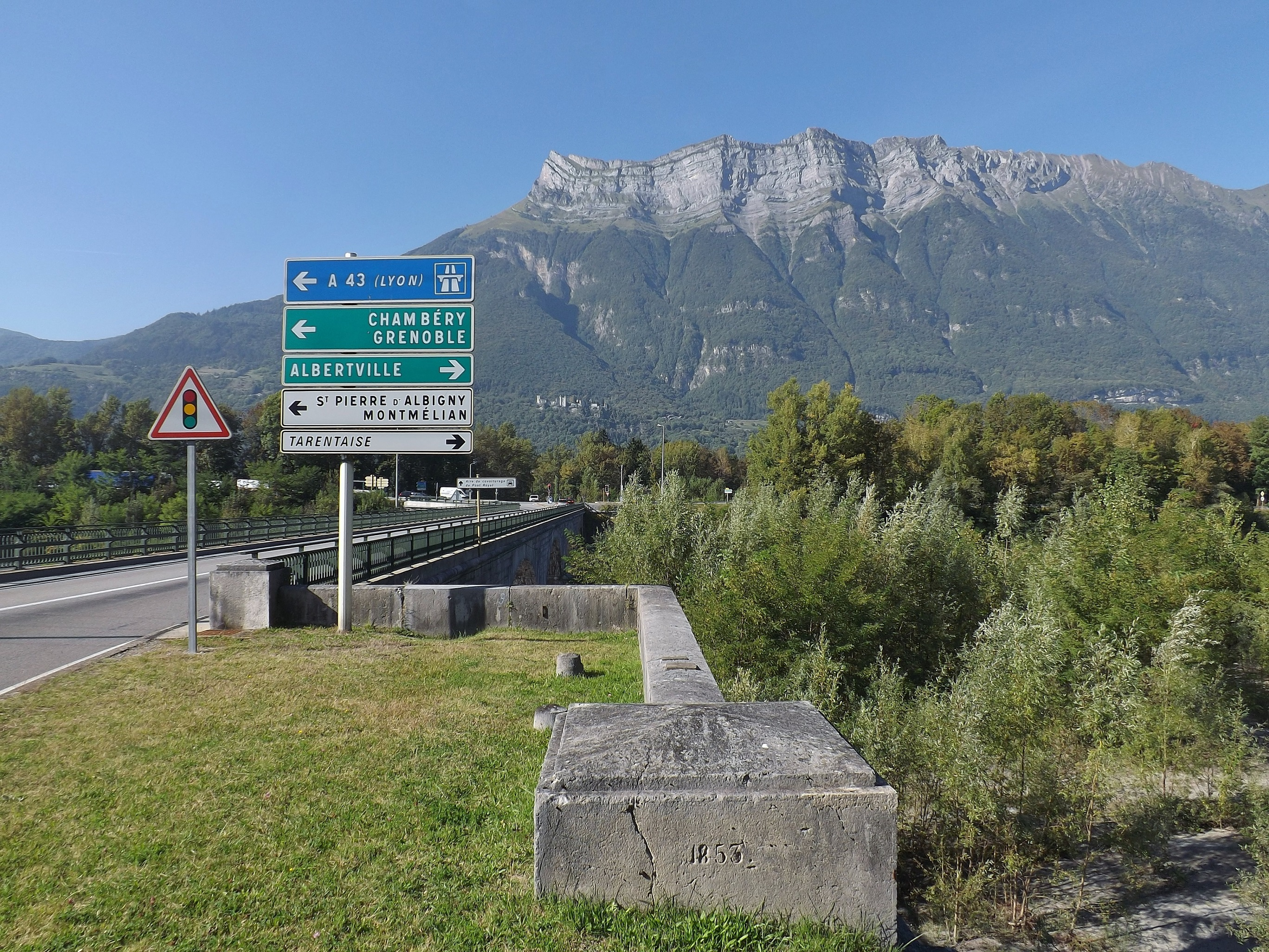 Sight of the Pont Royal bridge (1853), crossing the river Isère on the French commune of Chamousset, with the Arclusaz mountain at the background, in Savoie.